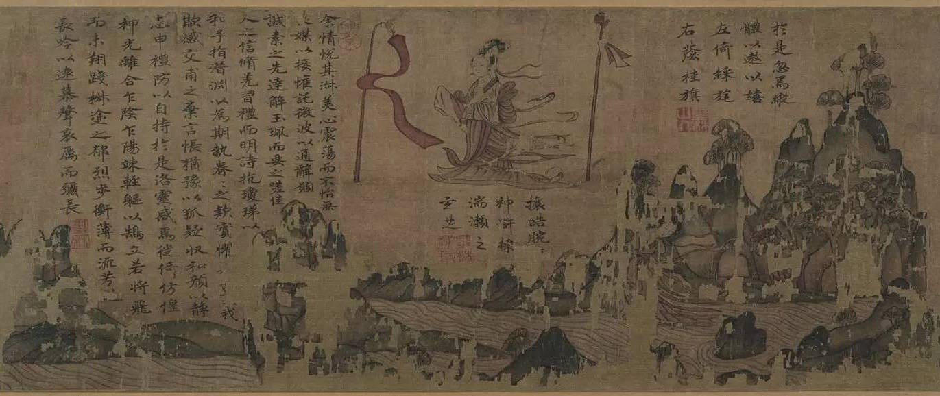 Goddess_of_luo_shui